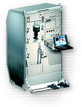 Fluid Science Laboratory in Columbus-Modul